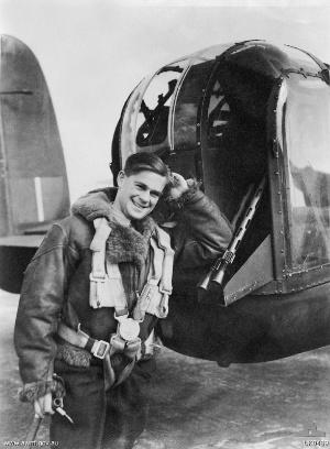 Photograph of Flight Sergeant (later Flight Lieutenant) Roberts Christian Dunstan, an Australian one-legged air gunner in the Royal Australian Air Force serving with the RAF Bomber Command in the Second World War.